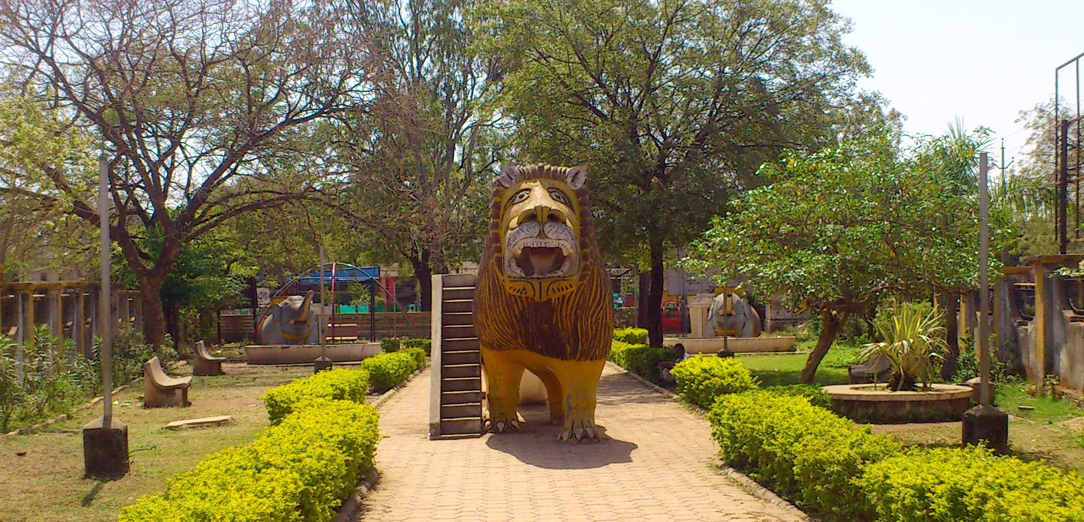 Lions Park Neemuch at Veer Park Road